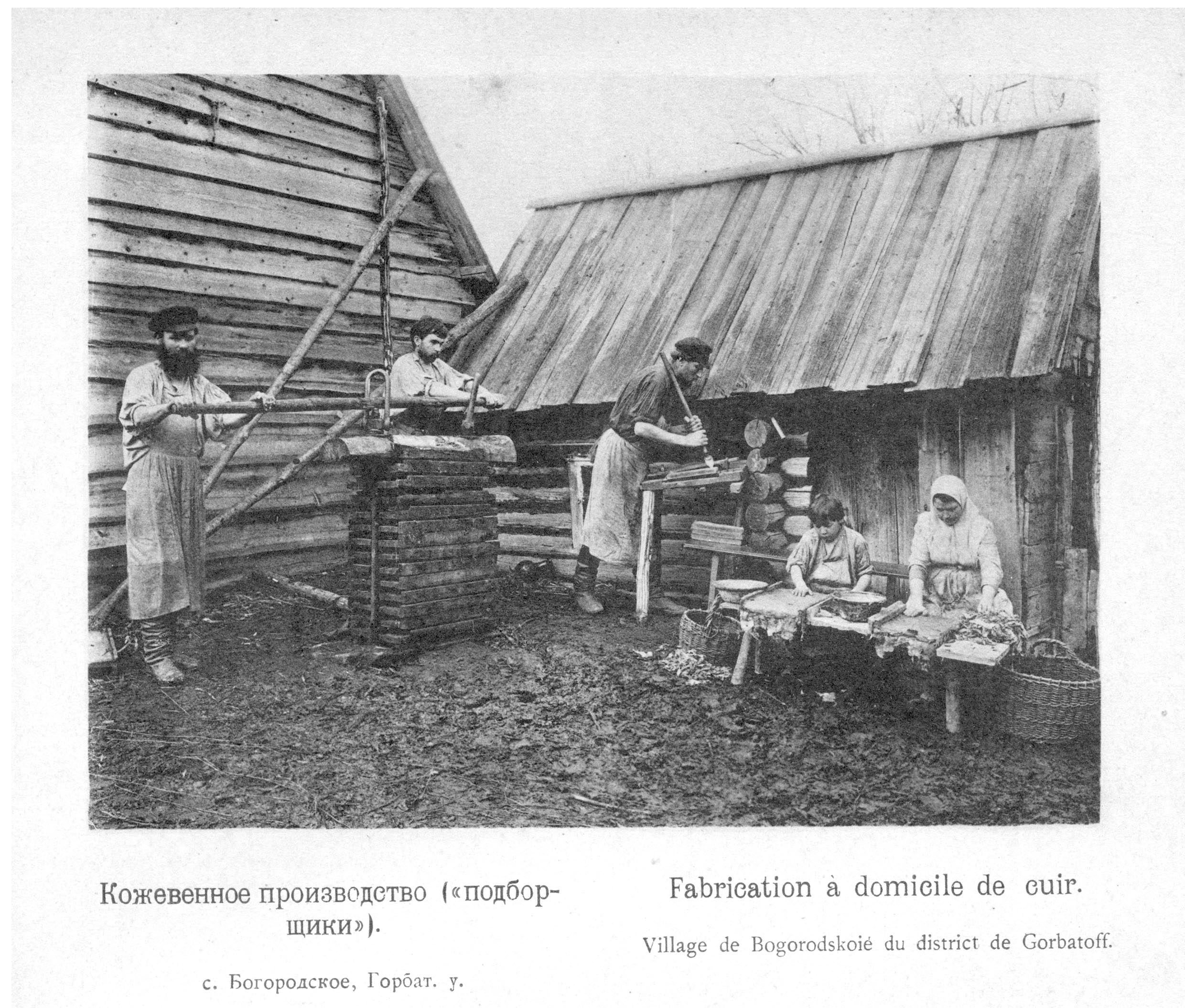 Handicraft Industry and Trades of Nizhegorodskaja gubernija. Bogorodsk. XIX c.